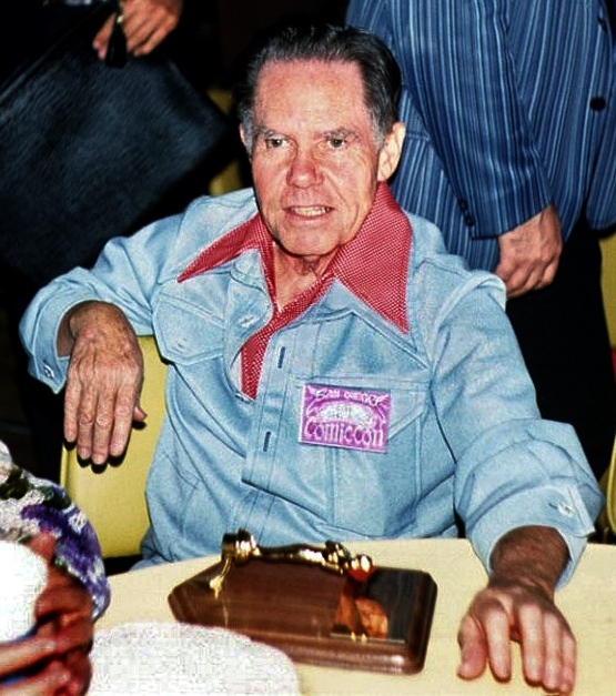 Photo of Daws Butler at the San Diego Comic Convention.